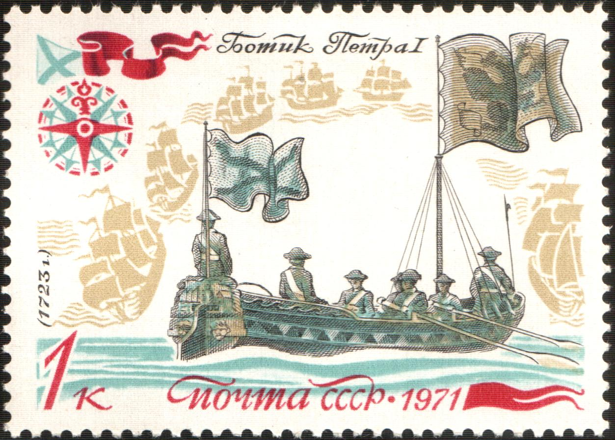 USSR stamp: Botik of Peter the Great, 1723. Series: History of the Russian Navy. Sailing Ships